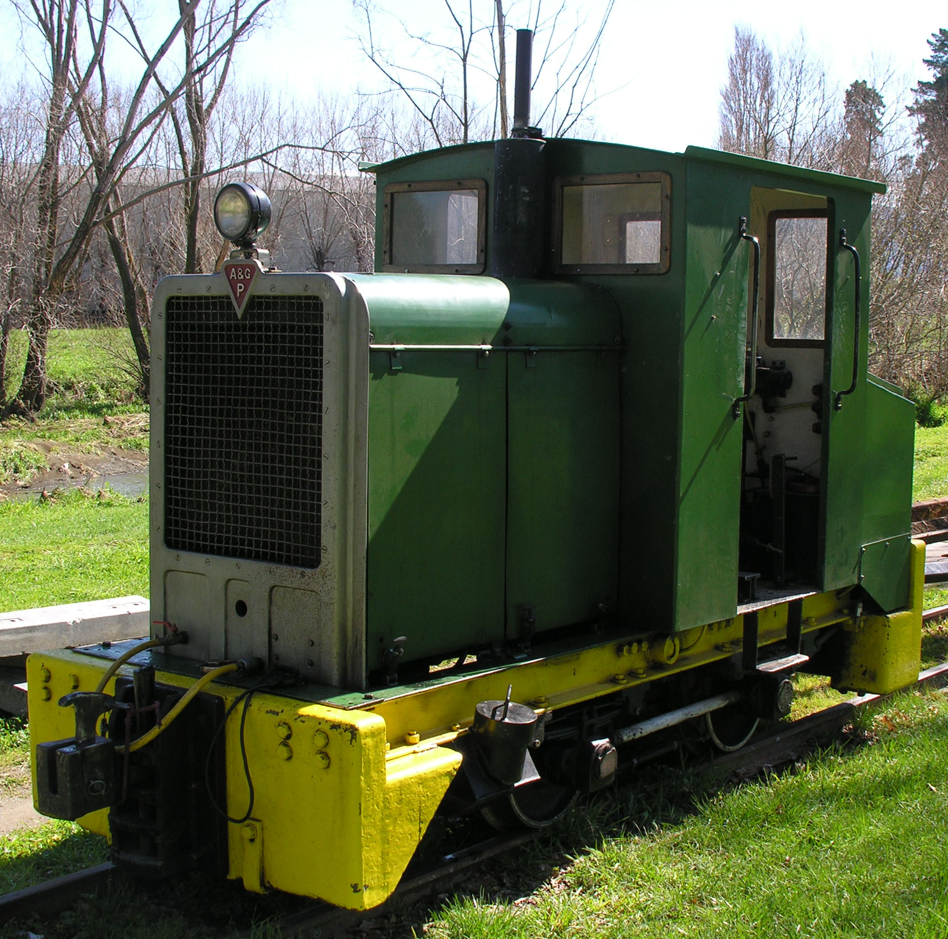 A & G Price built 6.5 ton 2ft gauge locomotive on the Blenheim Riverside Railway at a track upgrade, having dropped off a train of new concrete sleepers.